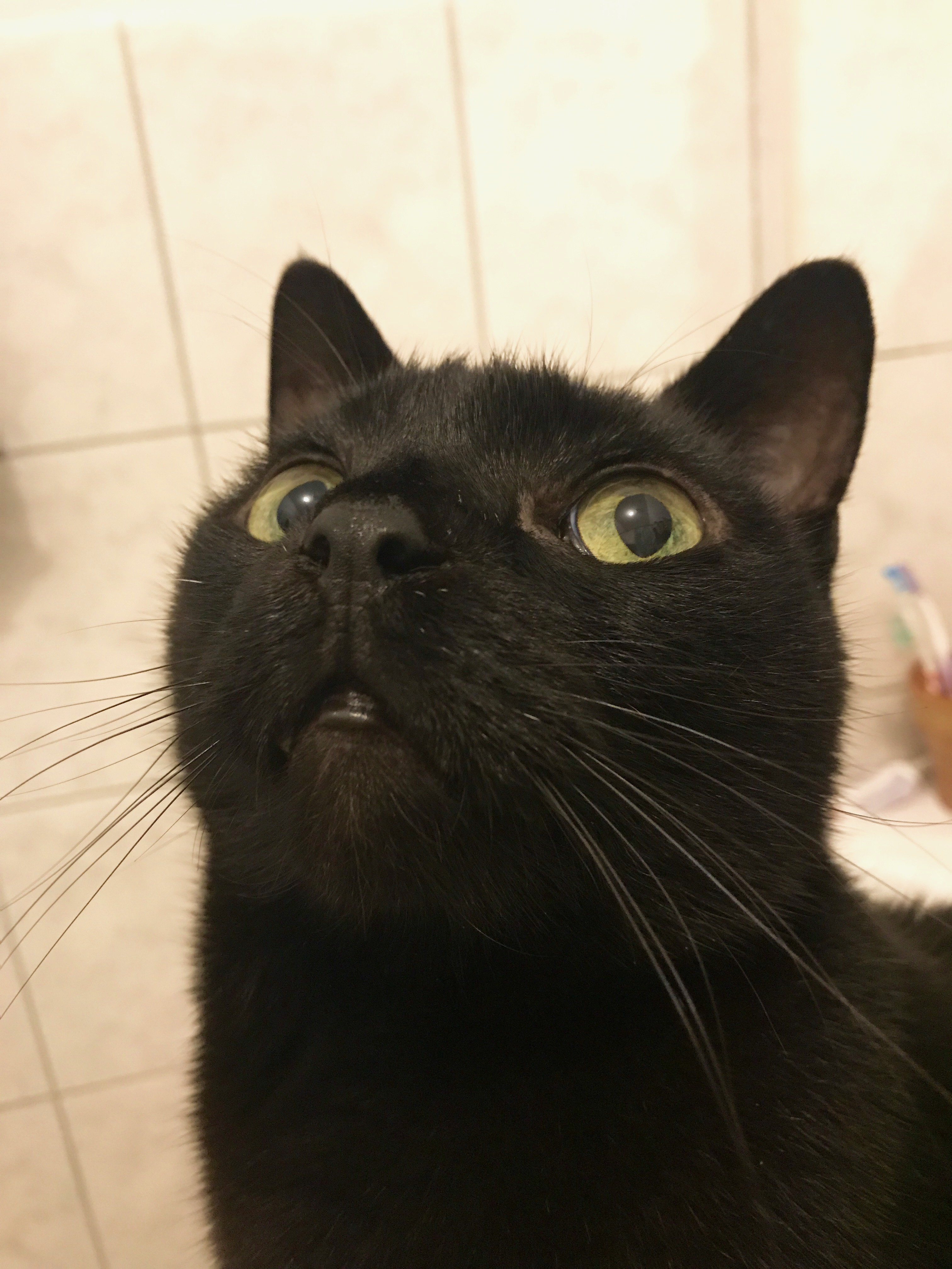 Close up of a black domestic cat